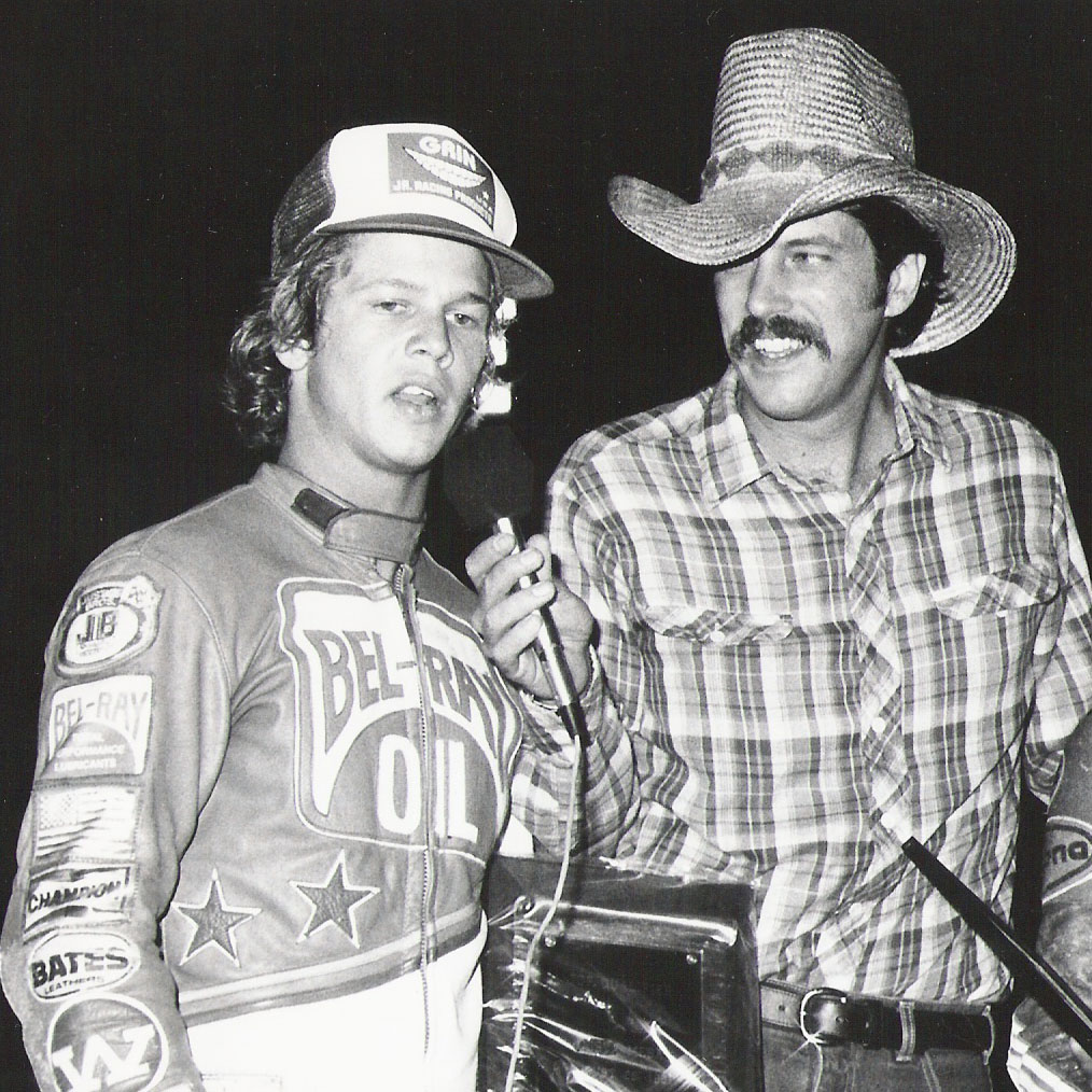 A young Bobby Schwartz being interviewed by Bruce Flanders in 1981